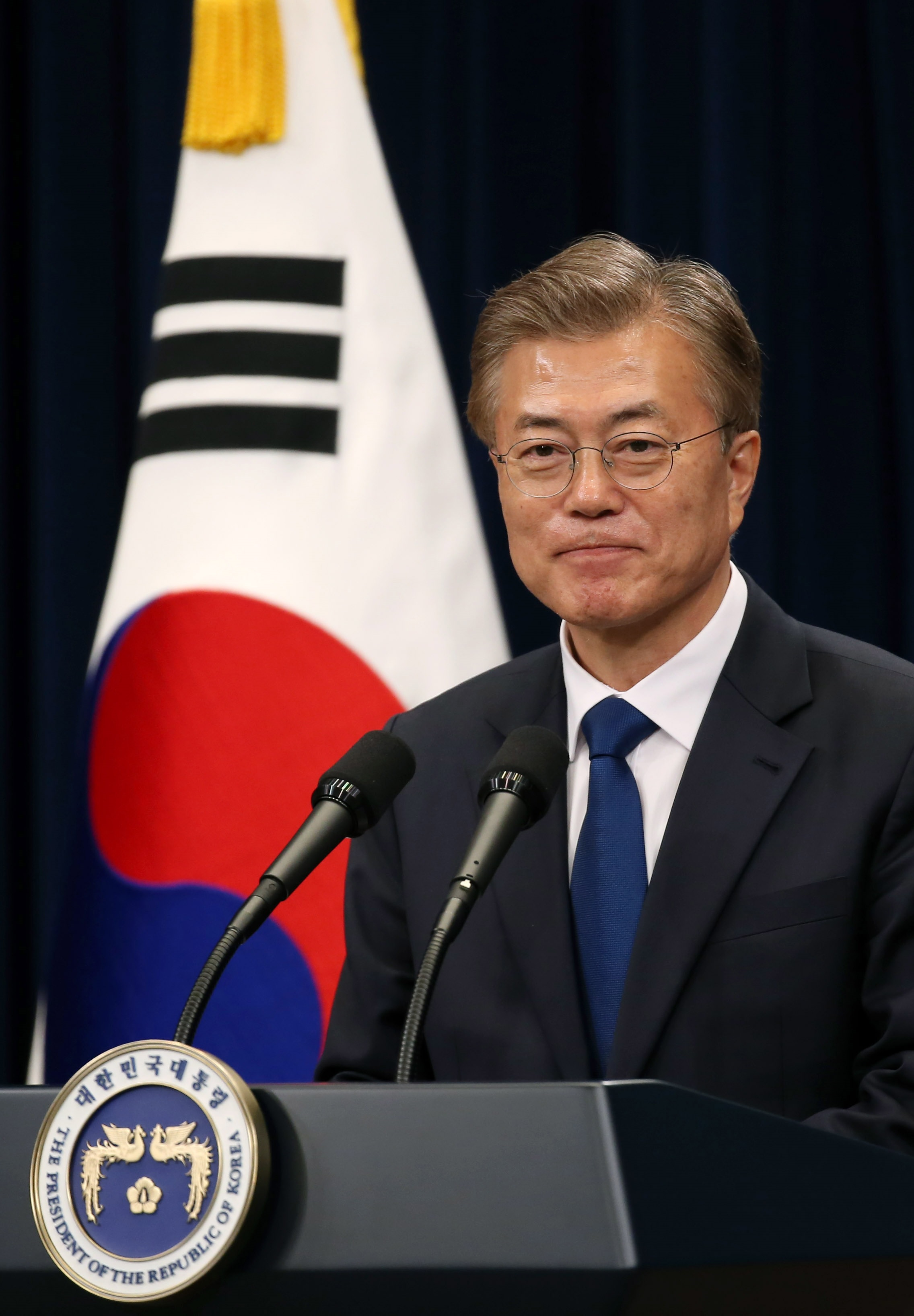 Moon Jae-in, the 19th President of Republic of Korea